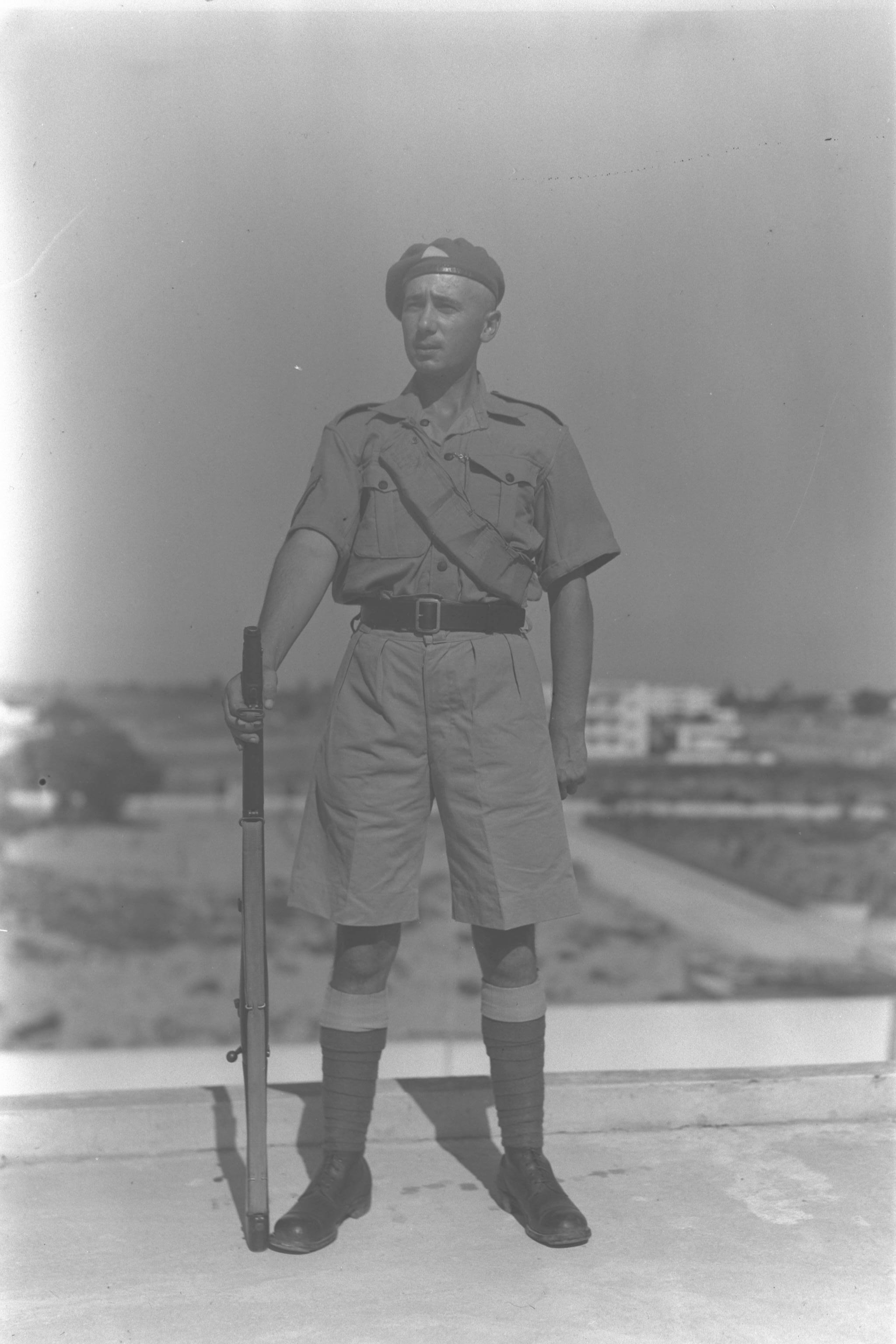 Member of the Jewish Settlement Police.